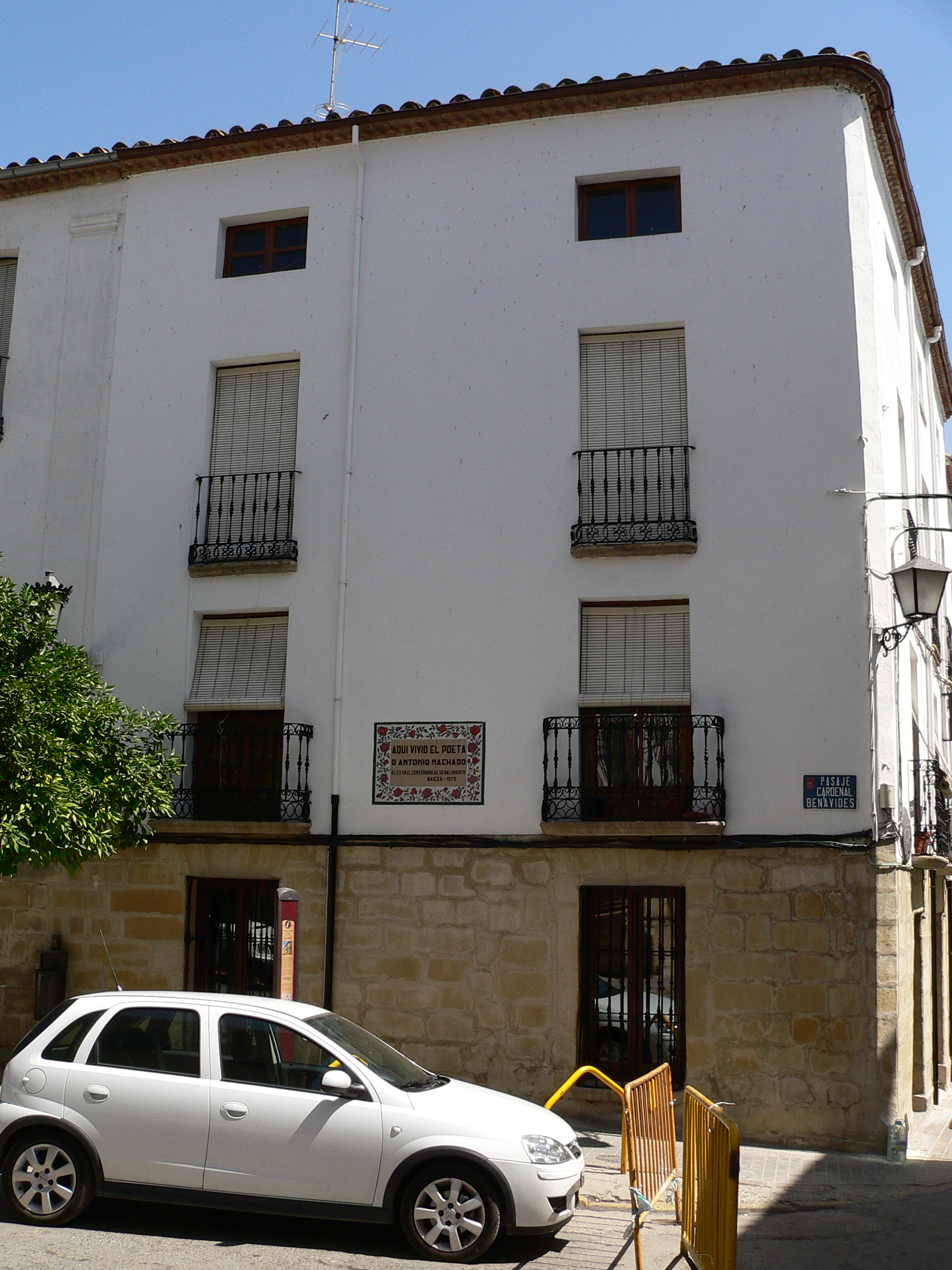 Description: House of Antonio Machado Place: Baeza Country: Spain Photographer: © Manuel González Olaechea y Franco Shot date : July, 23st , 2006